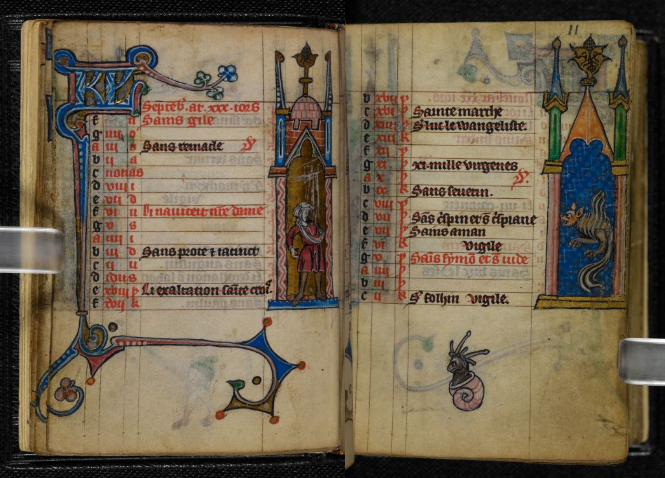 Two adjacent folios (pages) of the Maastricht Book of Hours (BL Stowe MS17), an illuminated manuscript known for its lively depictions of animals and half-animals. It was probably produced in the Liège-Maastricht area in the first quarter of the 14th century. The book of hours was probably made for an aristocratic lady, who is possibly depicted in it. In the 18th century it was owned by the 1st Duke of Buckingham and Chandos (1776–1839), who in 1849 sold it to Lord Ashburham. In 1883 it was purchased by the British Library as part of the Stowe collection. Pages f2v up to f13r constitute a calendar of Saints. Here: ff. 10v-11r. There is an entire folio missing here: f10v illustrates the month of September with the labour of the month (here: sowing). On the right should have been the appropriate sign of the zodiac: Equilibria. Instead we see on f11r the sign of the zodiac for October: Scorpio. The initials KL stretch over the entire left page.